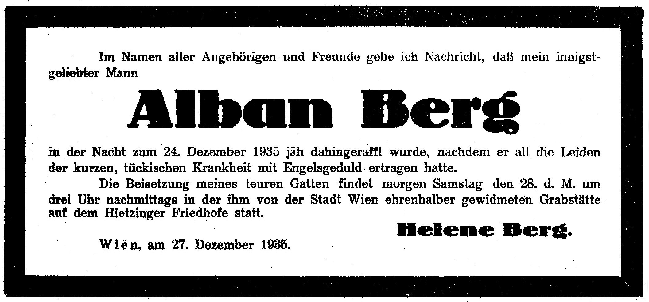 Death notice for Alban Berg